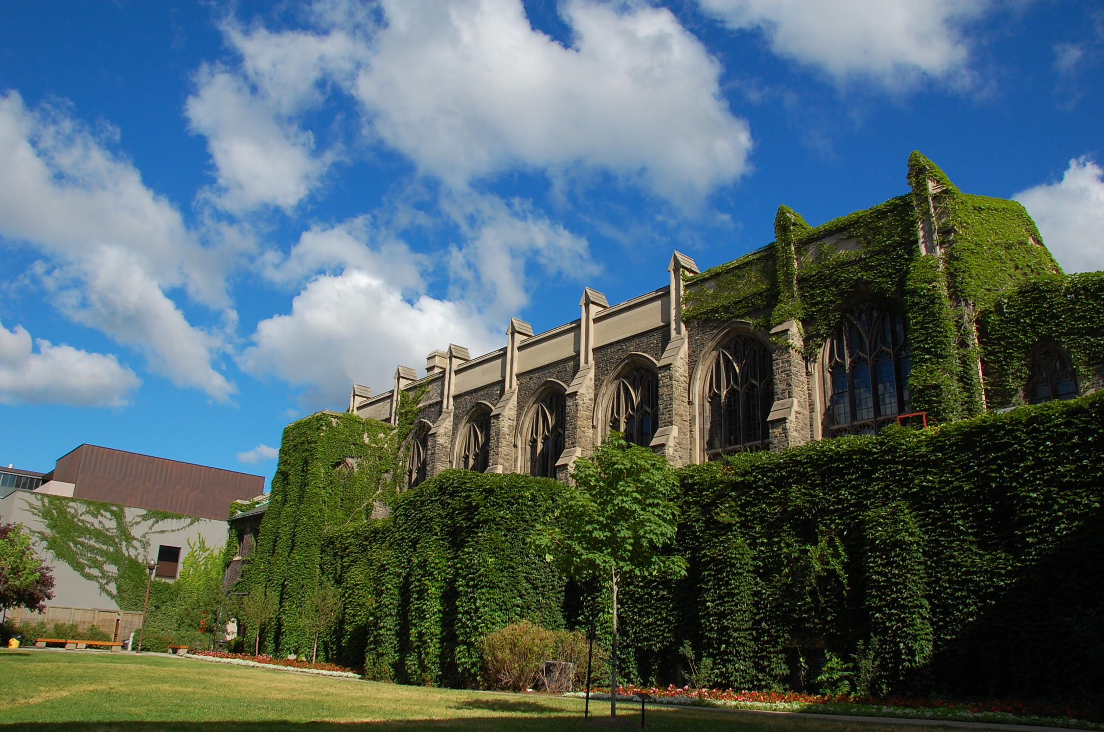 The Burwash Hall at Victoria University. I stayed five nights there and love it.